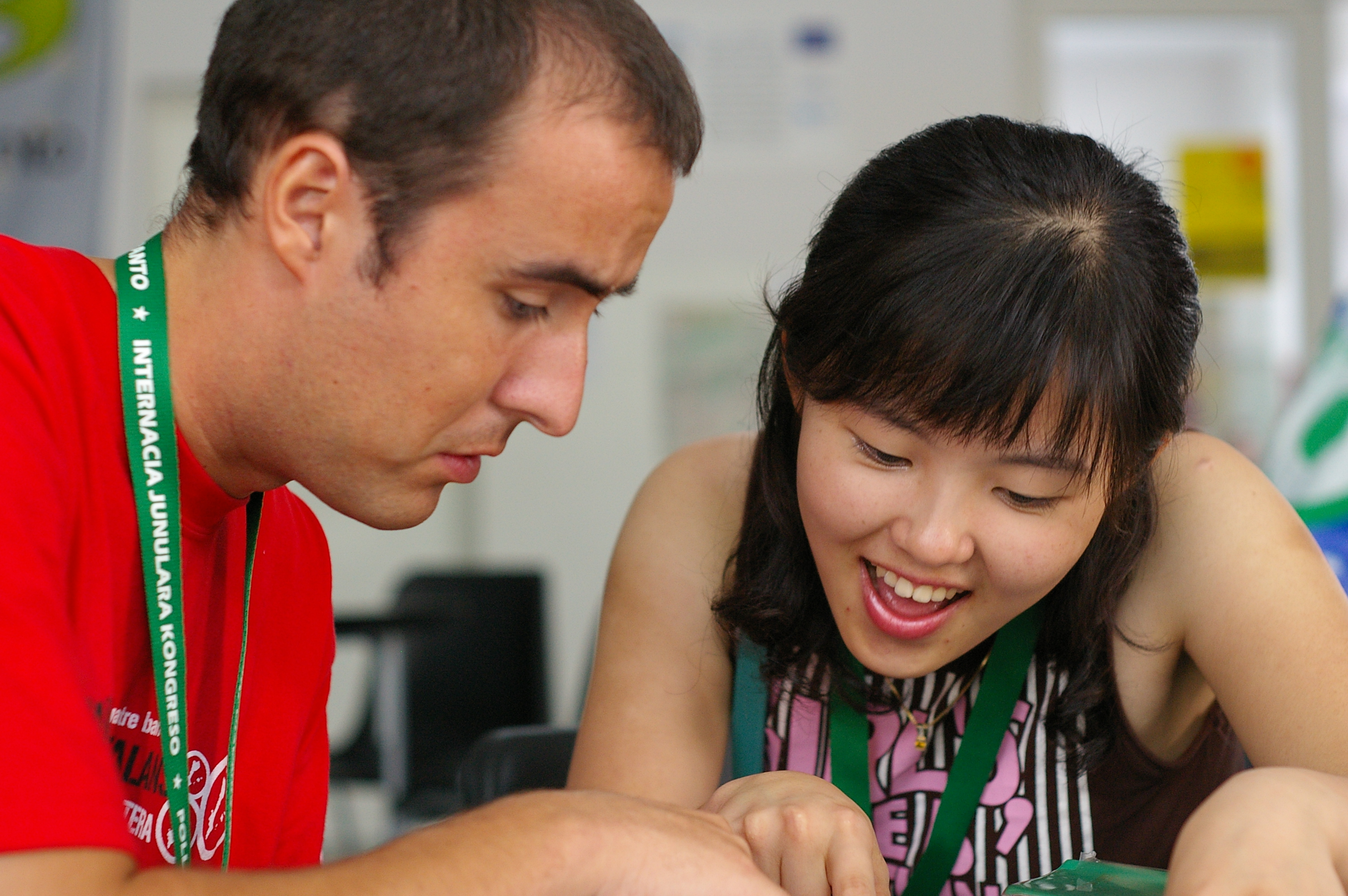 Participants of the 61st International Youth Congress of Esperanto in Zakopane (Poland).